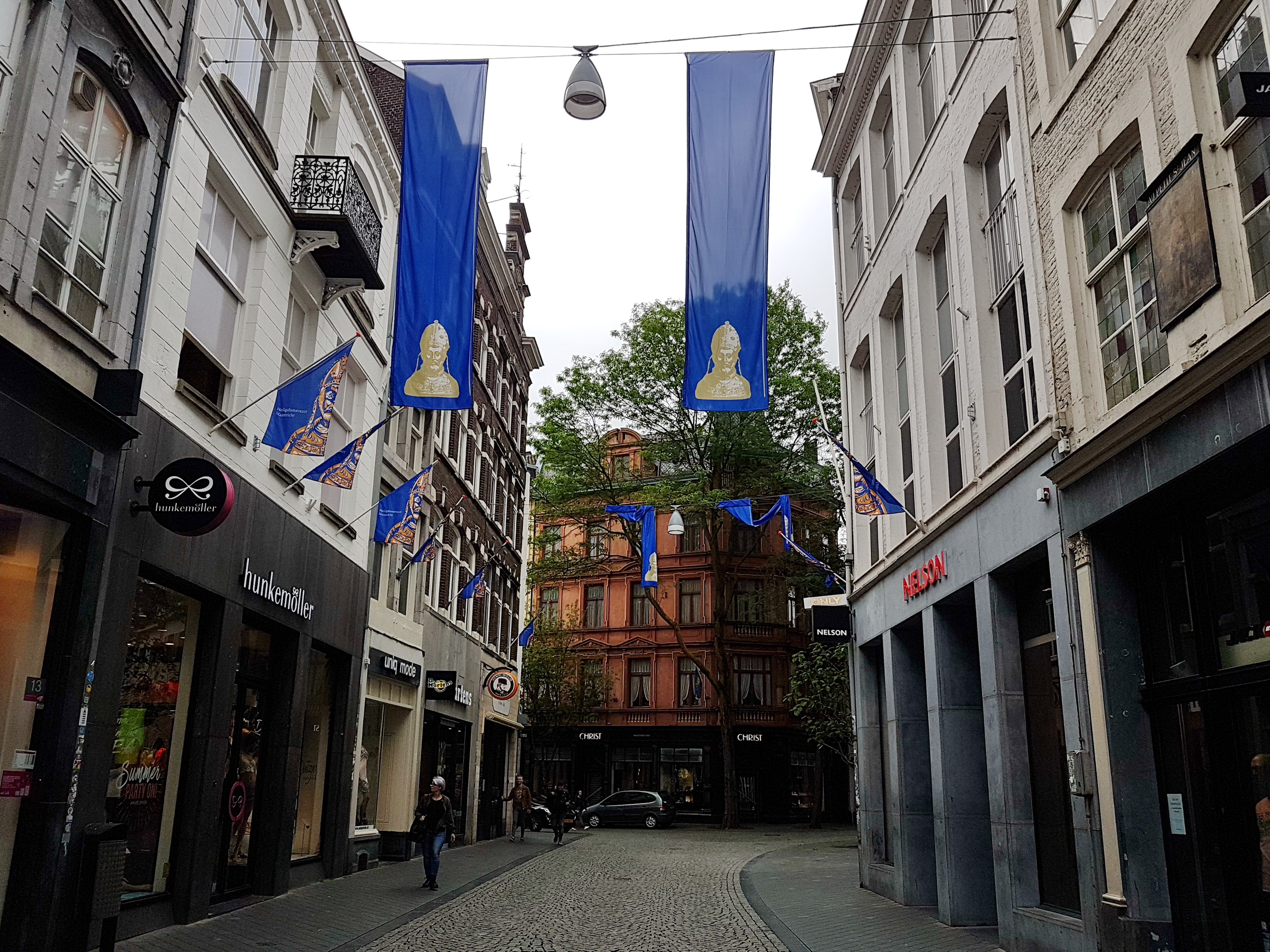 Flags and banners in Kleine Staat in Maastricht, Netherlands. The photograph was taken during the 2018 Heiligdomsvaart ("relics pilgrimage"), a religious and historic event that takes place once in seven years and dates back to the Middle Ages.